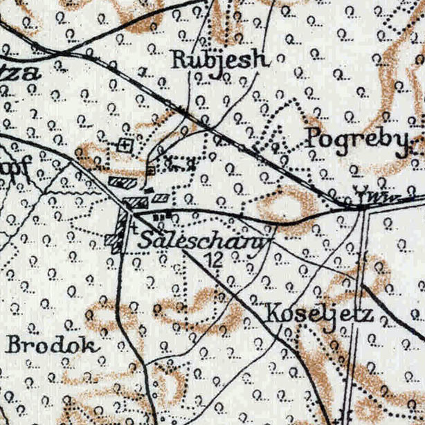 Zalishany on the map "Karte des Westlichen Russlands", T 35, 1917. According to Digital Repository of Scientific Institutes and Kujawsko-Pomorska Digital Library the map is in the public domain.